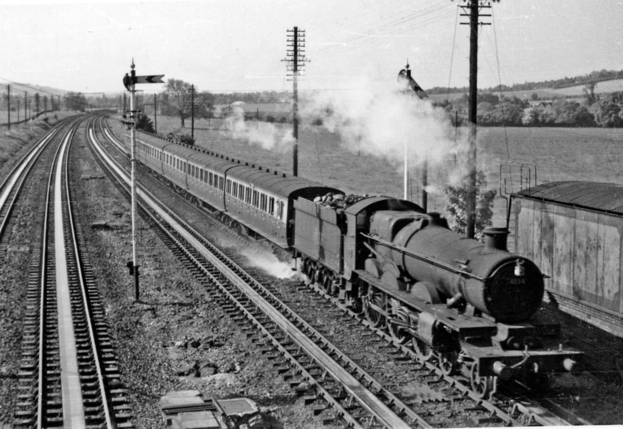 Up stopping train on Goring Troughs. View NW, towards Didcot, Swindon etc.; ex-GWR Paddington - Reading - Swindon - Bristol etc., etc. main line: Goring & Streatley station is 1½ miles ahead and out of sight. The Churchward 'Star' 4-6-0 has by now been demoted from express work: No. 4034 'Queen Adelaide' (built 11/10, soon to be withdrawn 9/52): she is still able to take water, on a Slow train. (See also SU6078 : Up Bristol express on Goring Troughs).